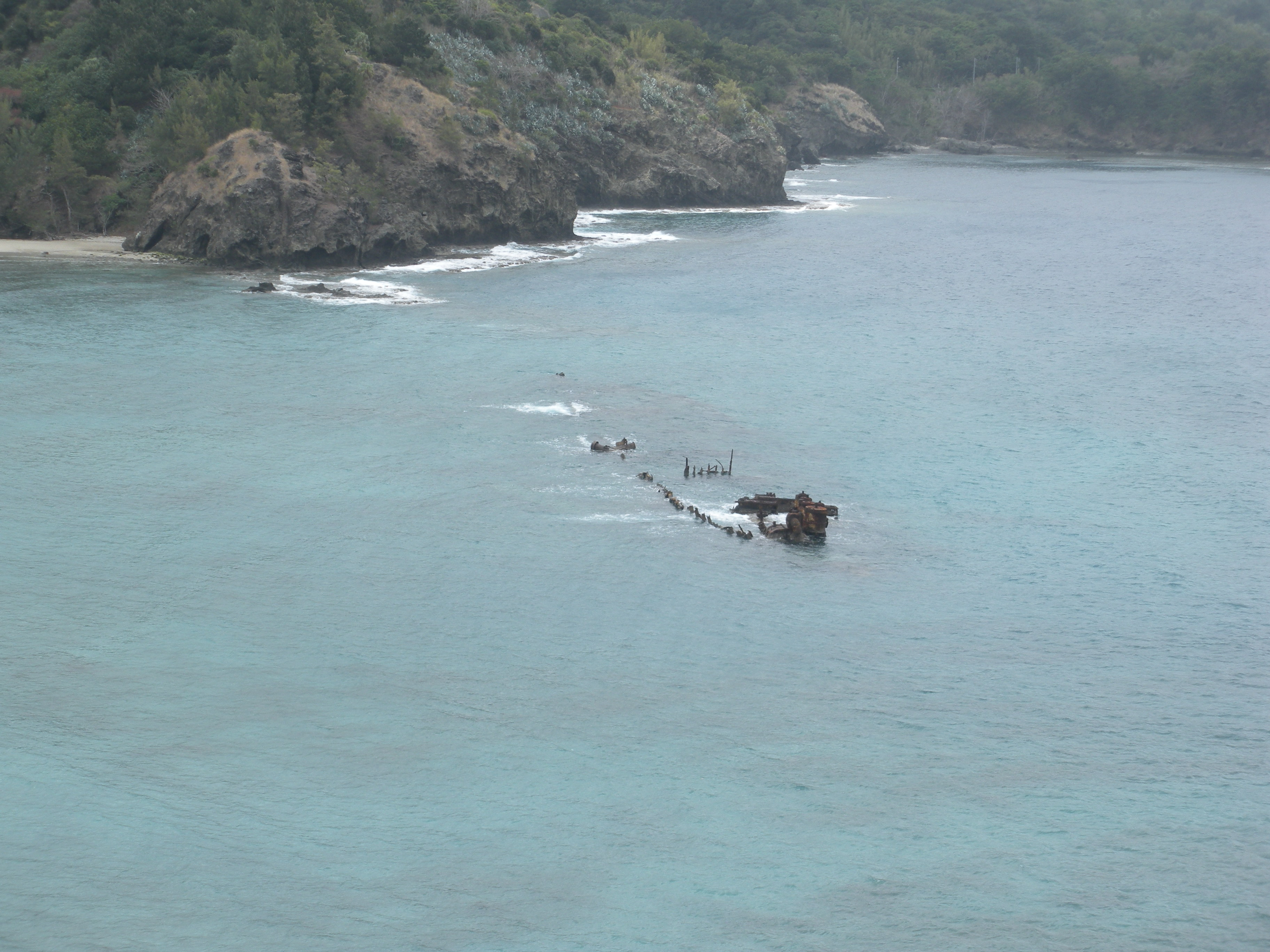 Wreck ``Hinkomaru``in japan Bonin Islands Chichijima Island